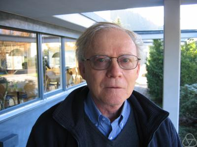 Mathematician Alfred “Alf” Jacobus van der Poorten in Oberwolfach, 2004.